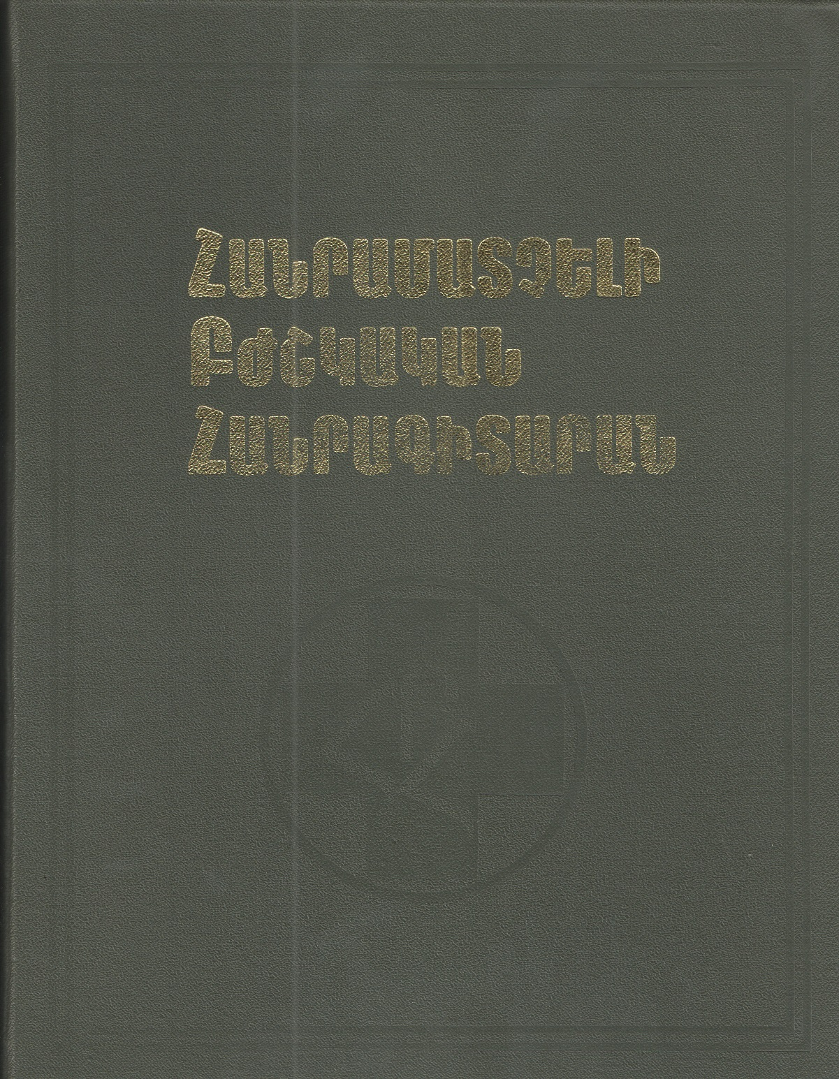 Popular Medical Encyclopedia cover